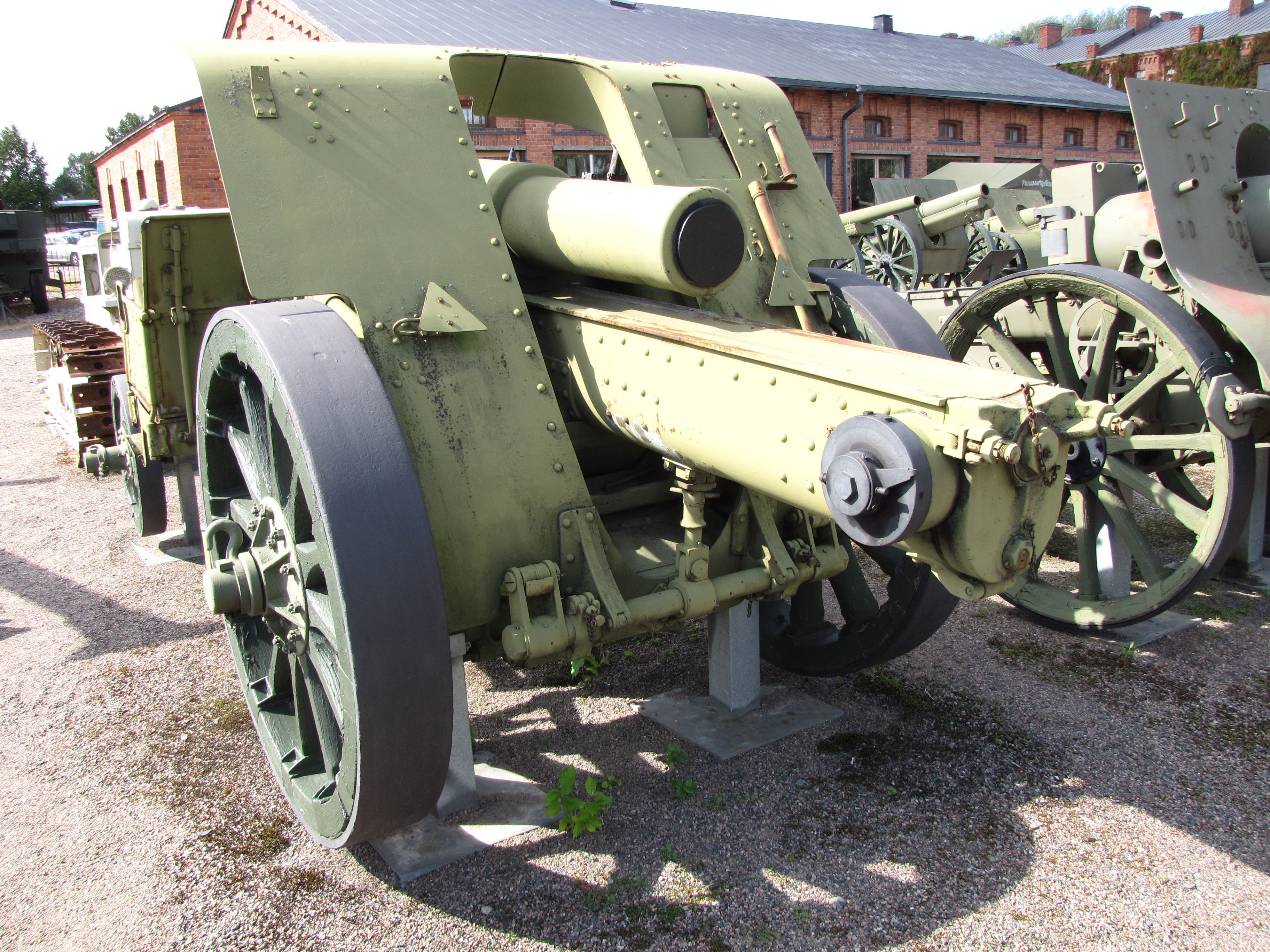 15 cm schwere Feldhaubitze M 15 in Hämeenlinna artillery museum. The gun is in travel position with the barrel pulled back and limber attached.